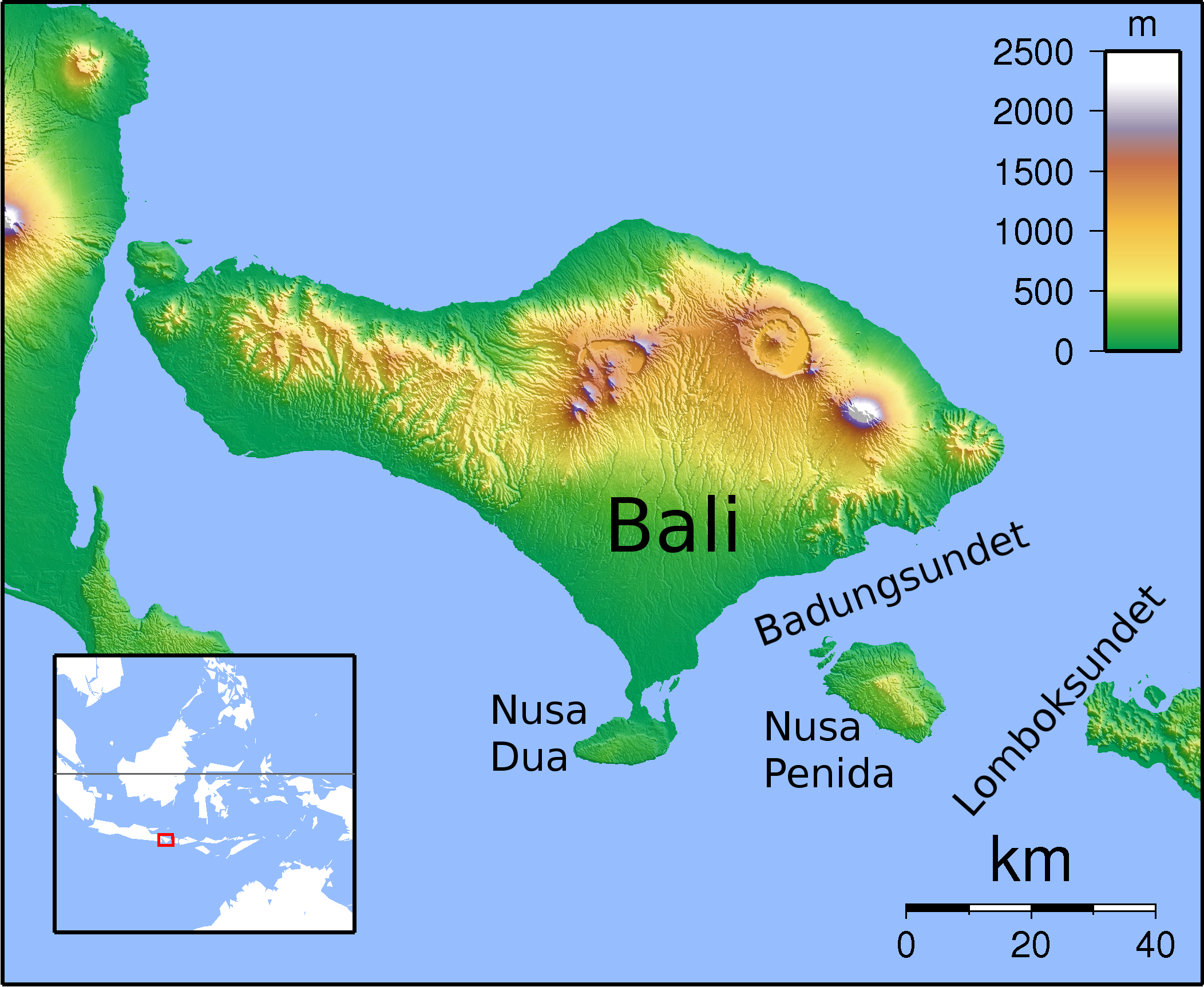 Location map for Bali. Created with GMT from SRTM data. Left: 114.25, Right: 116, Top:-7.75, Bottom:-9.1666666